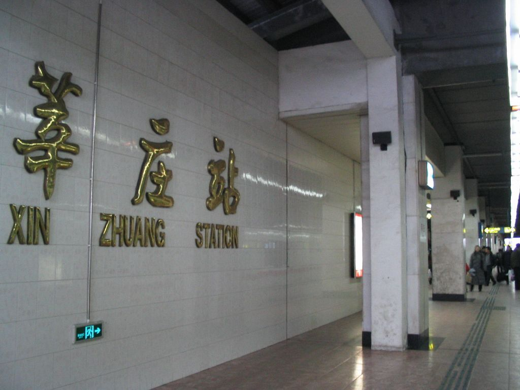 莘庄站-1號線月台 Line 1 Platform of Xinzhuang Station